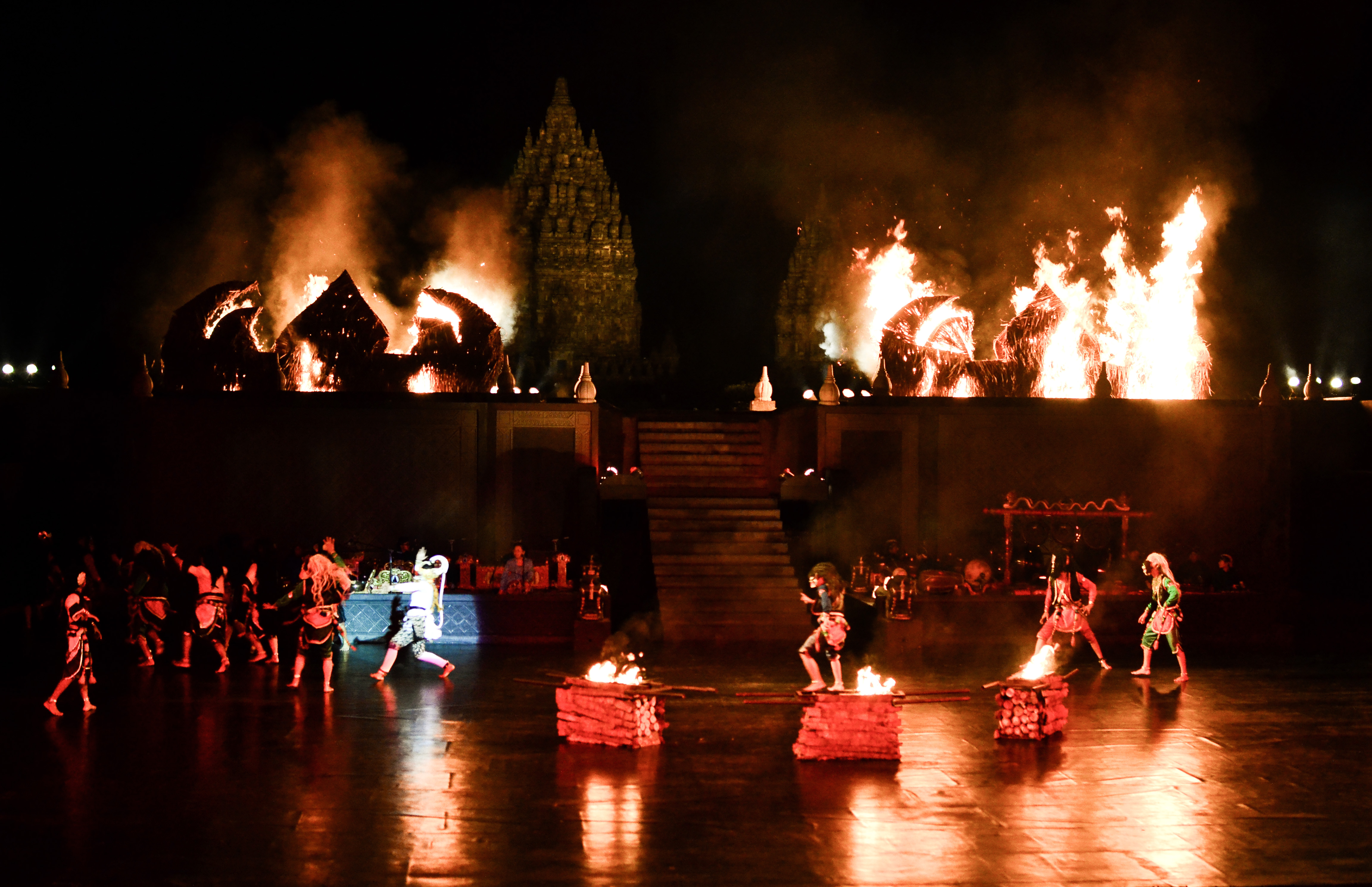 Ramayana Ballet @ Yogyakarta. Prambanan can be seen in backdrop